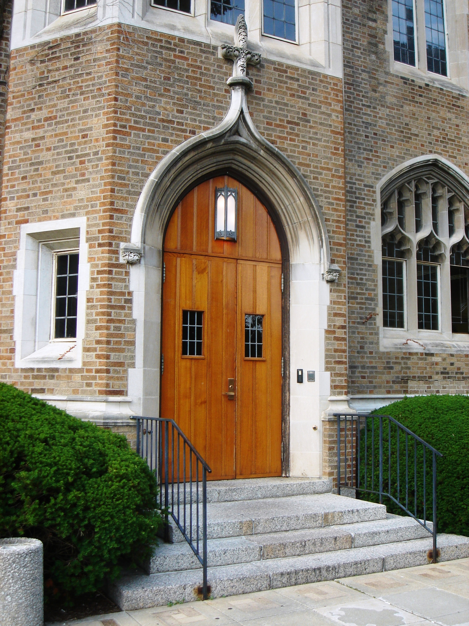 South entrance to Notre Dame Law School's Biolchini Building.